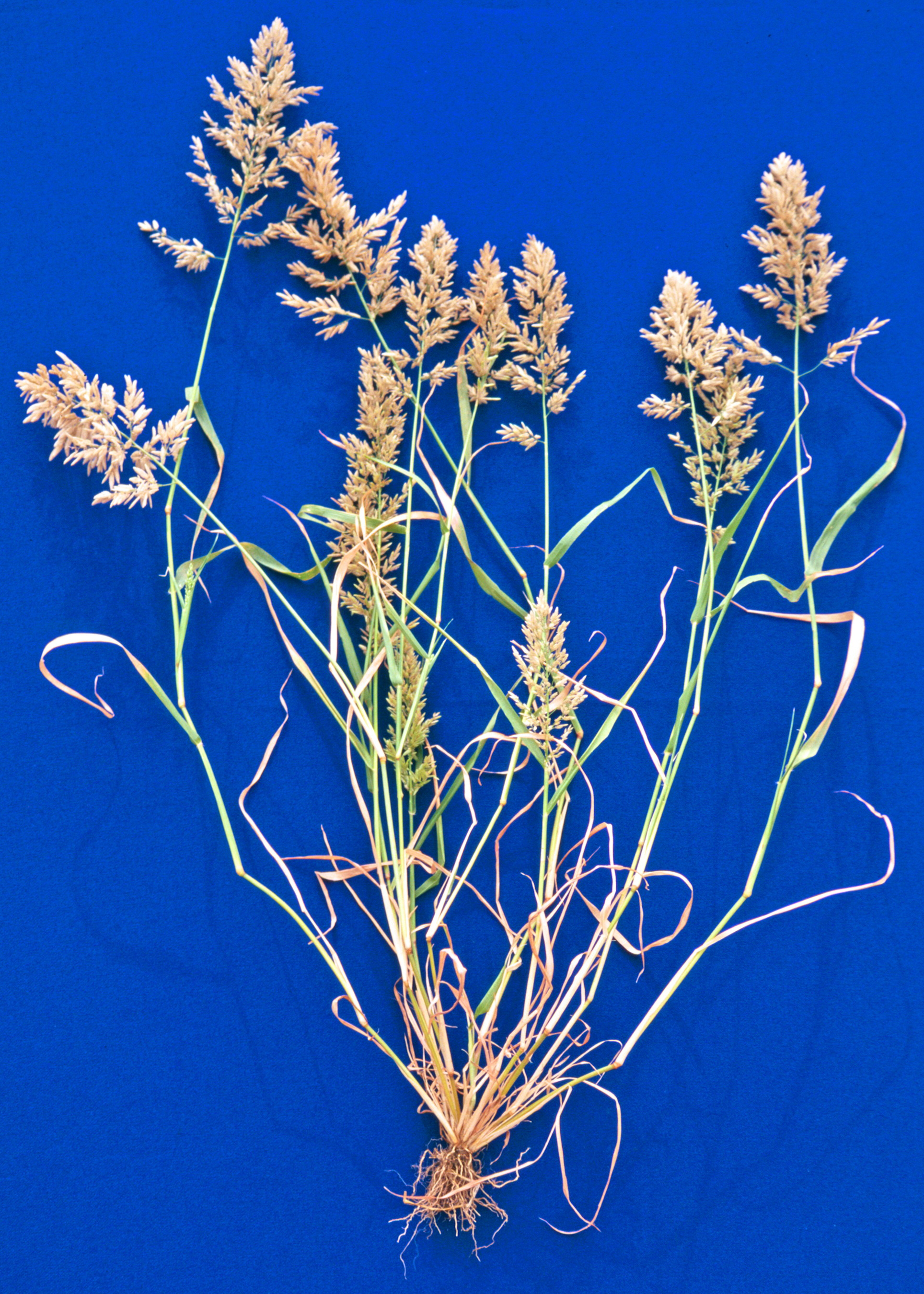 Eragrostis cilianensis (All.) Vign. ex Janchen - stinkgrass